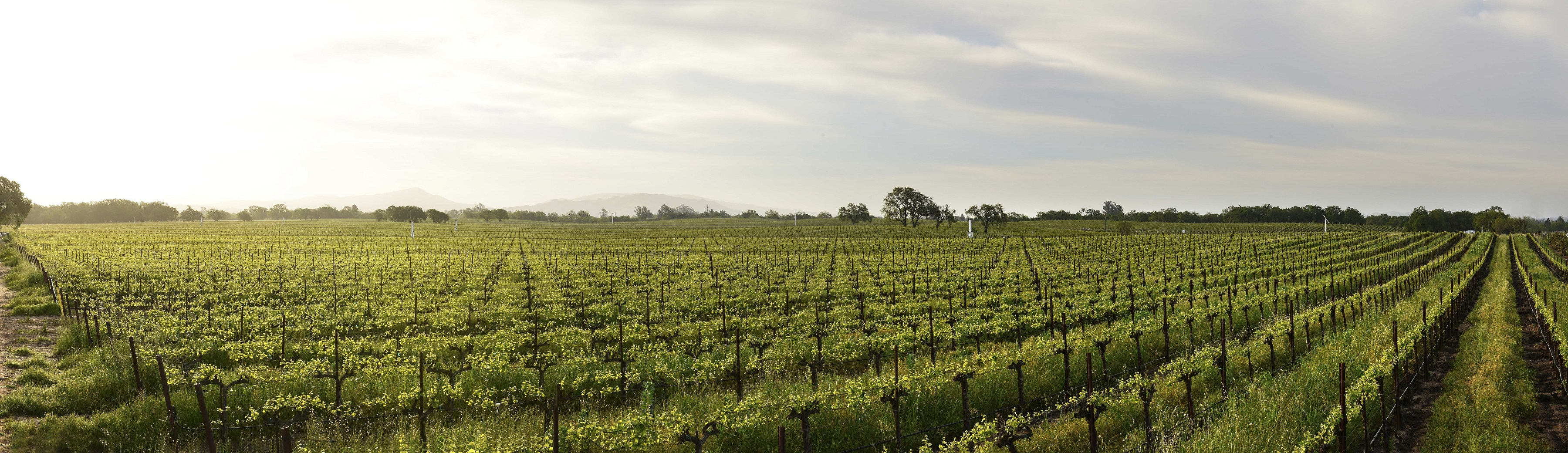 Russian River Valley AVA